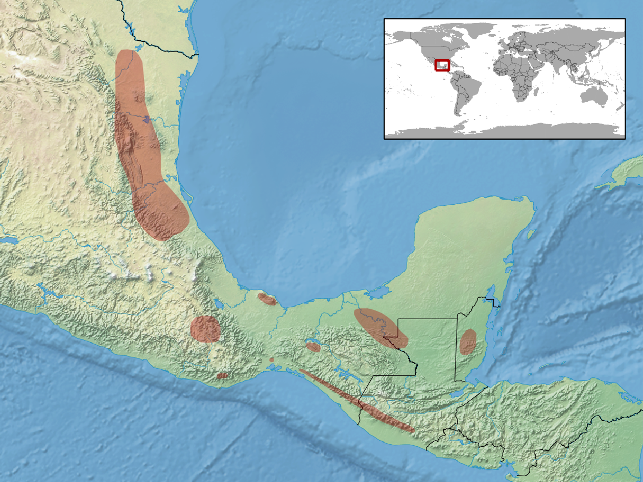 geographic distribution of Adelphicos quadrivirgatum (Native: Belize; Guatemala; Honduras; Mexico) Following RDB's definition with A.q. sargii and A.q. visoninus as subspecies.